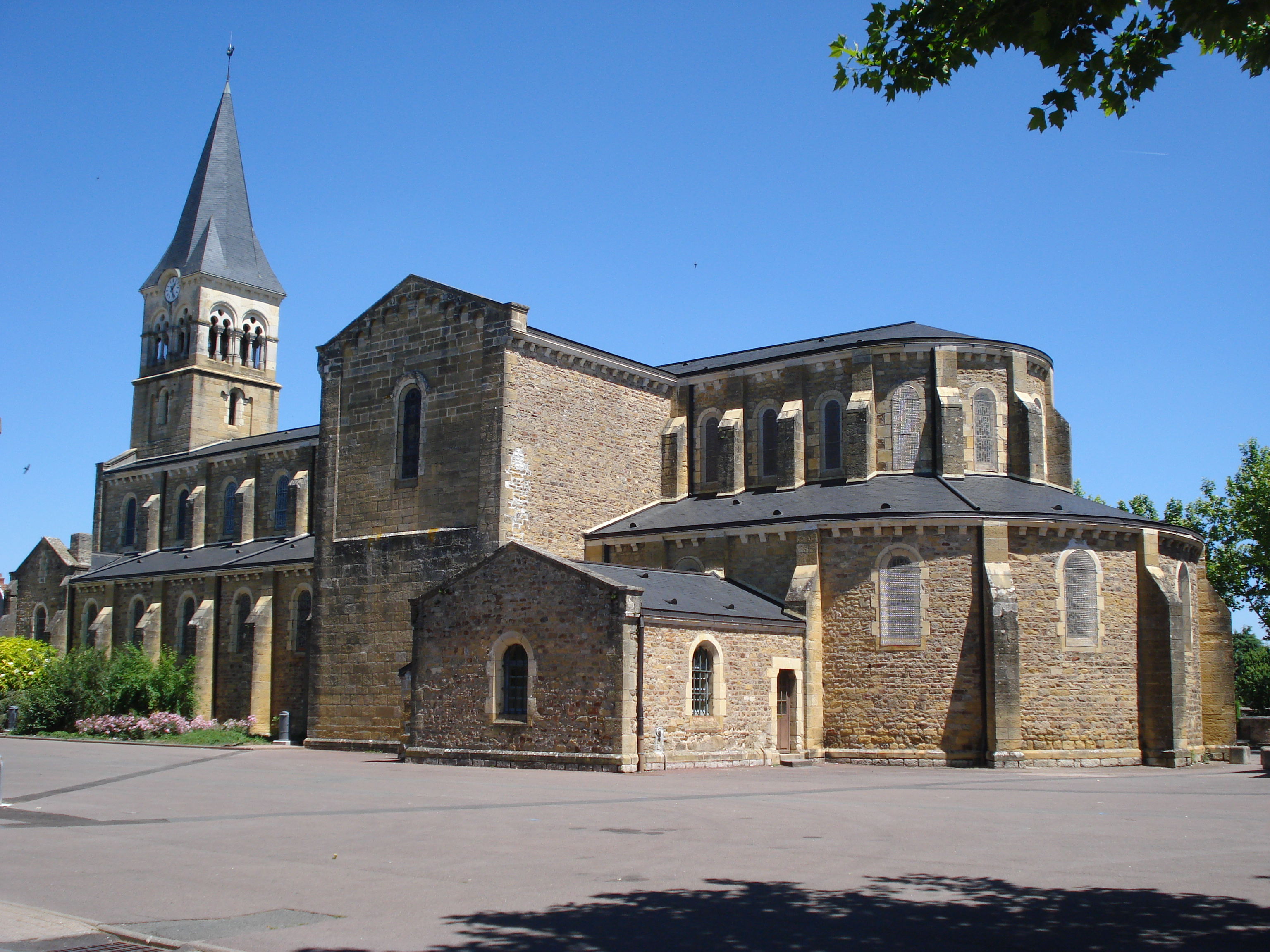 Church of Gueugnon (Saône-et-Loire, Fr)